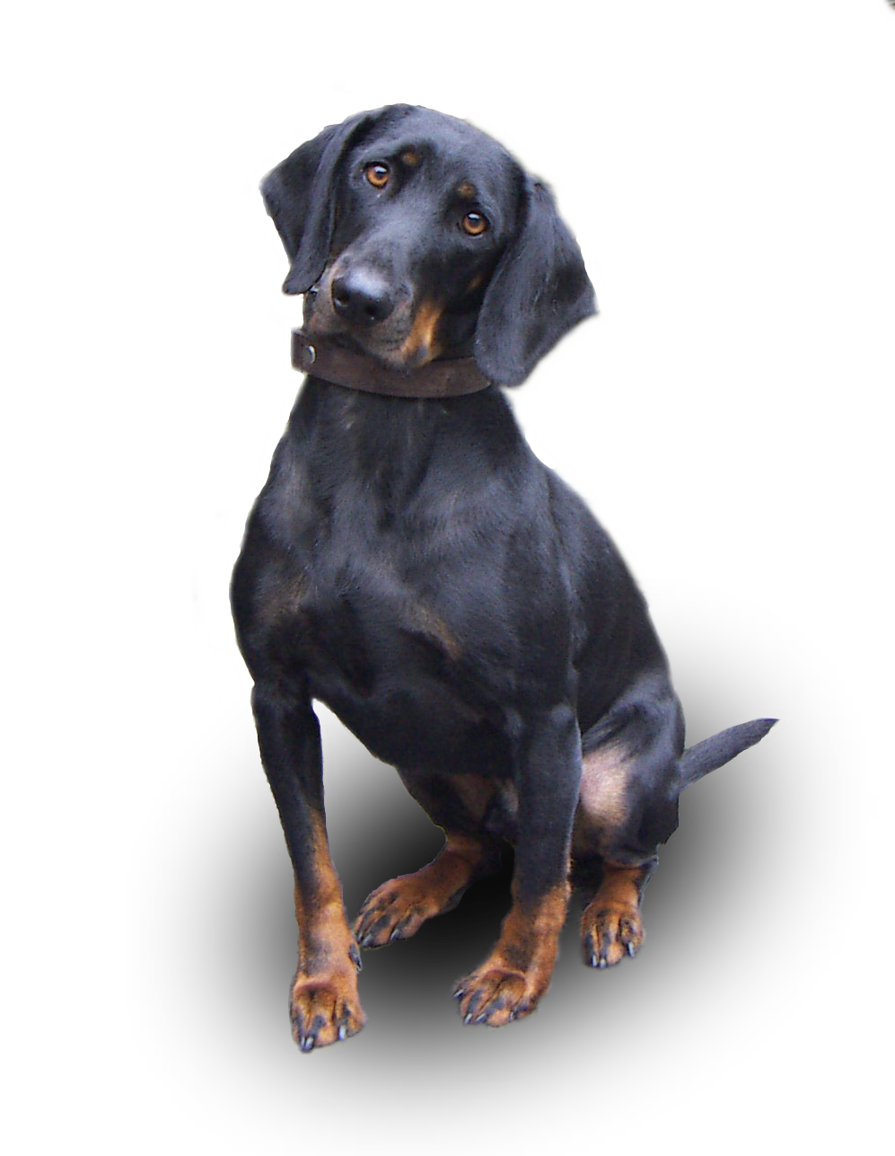 Bon toutou (a dog with transparent background. Using Image:Brandlbracke.JPG by Steffen Heinz (Caronna).